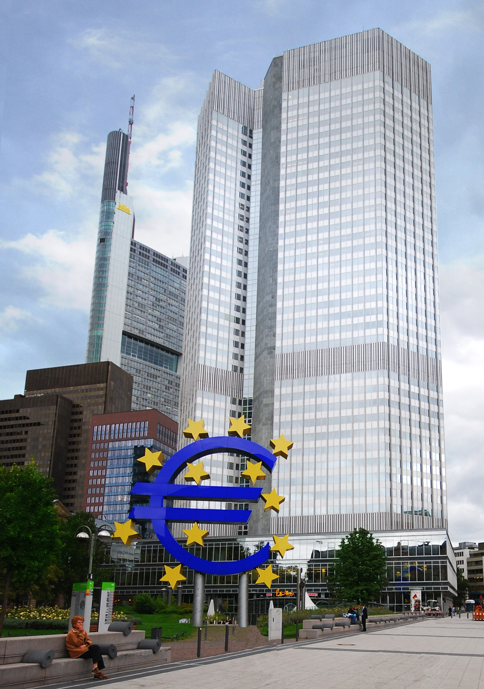 The European Central Bank. Notice a sculpture of the euro sign.